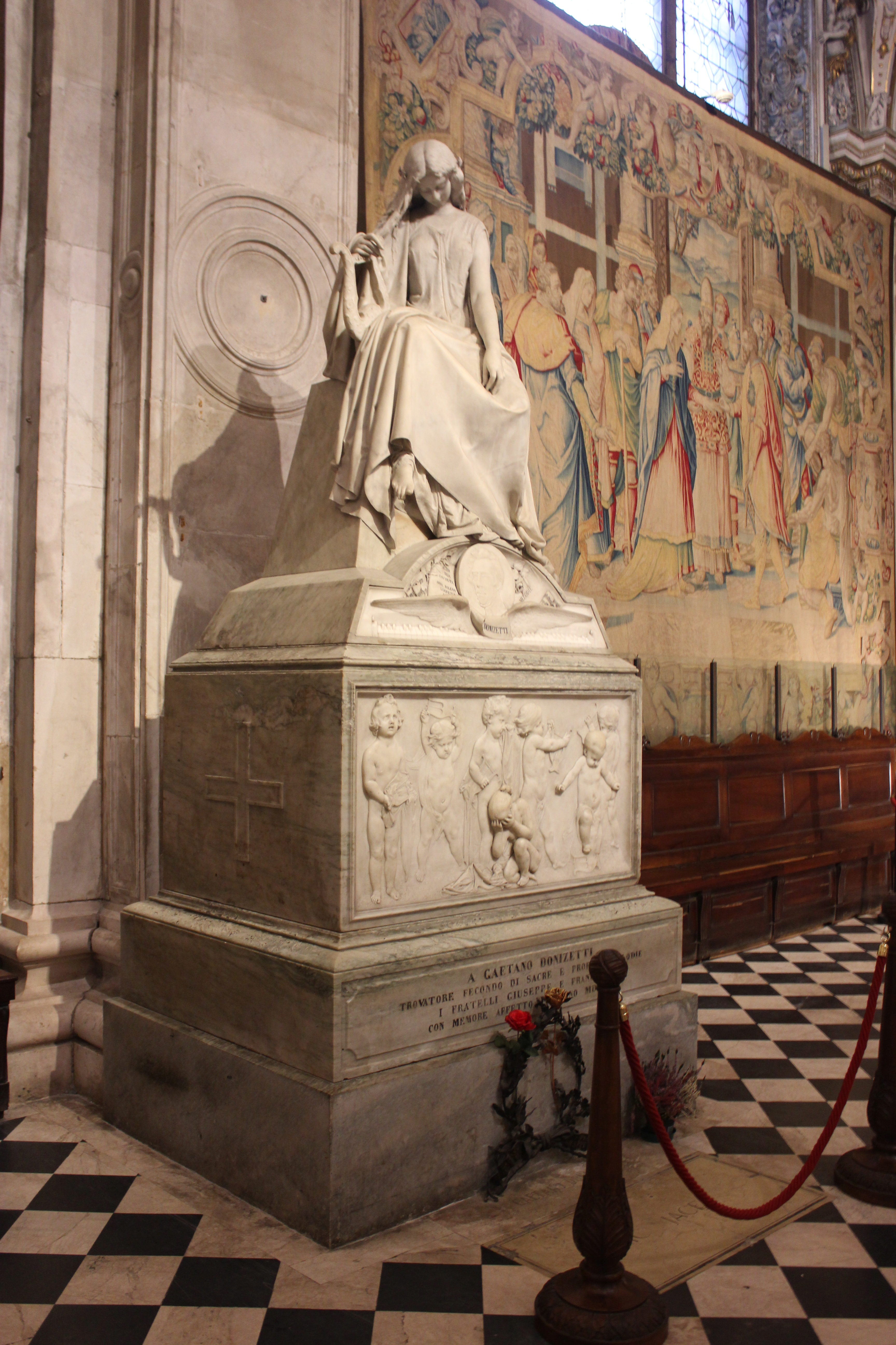 Bergamo - Santa Maria Maggiore basilica